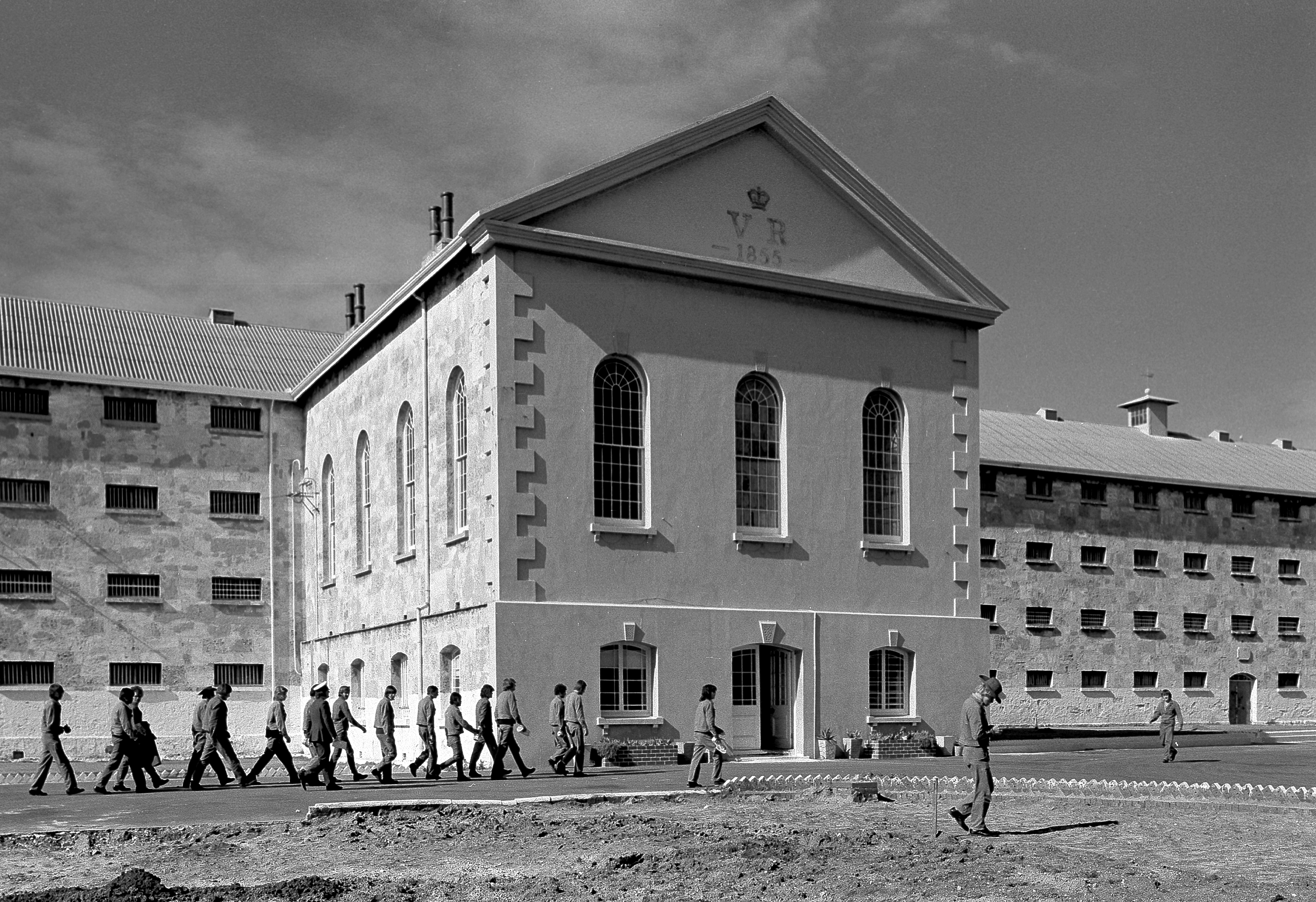 This was taken ca 1971 when it was still a maximum security prison.